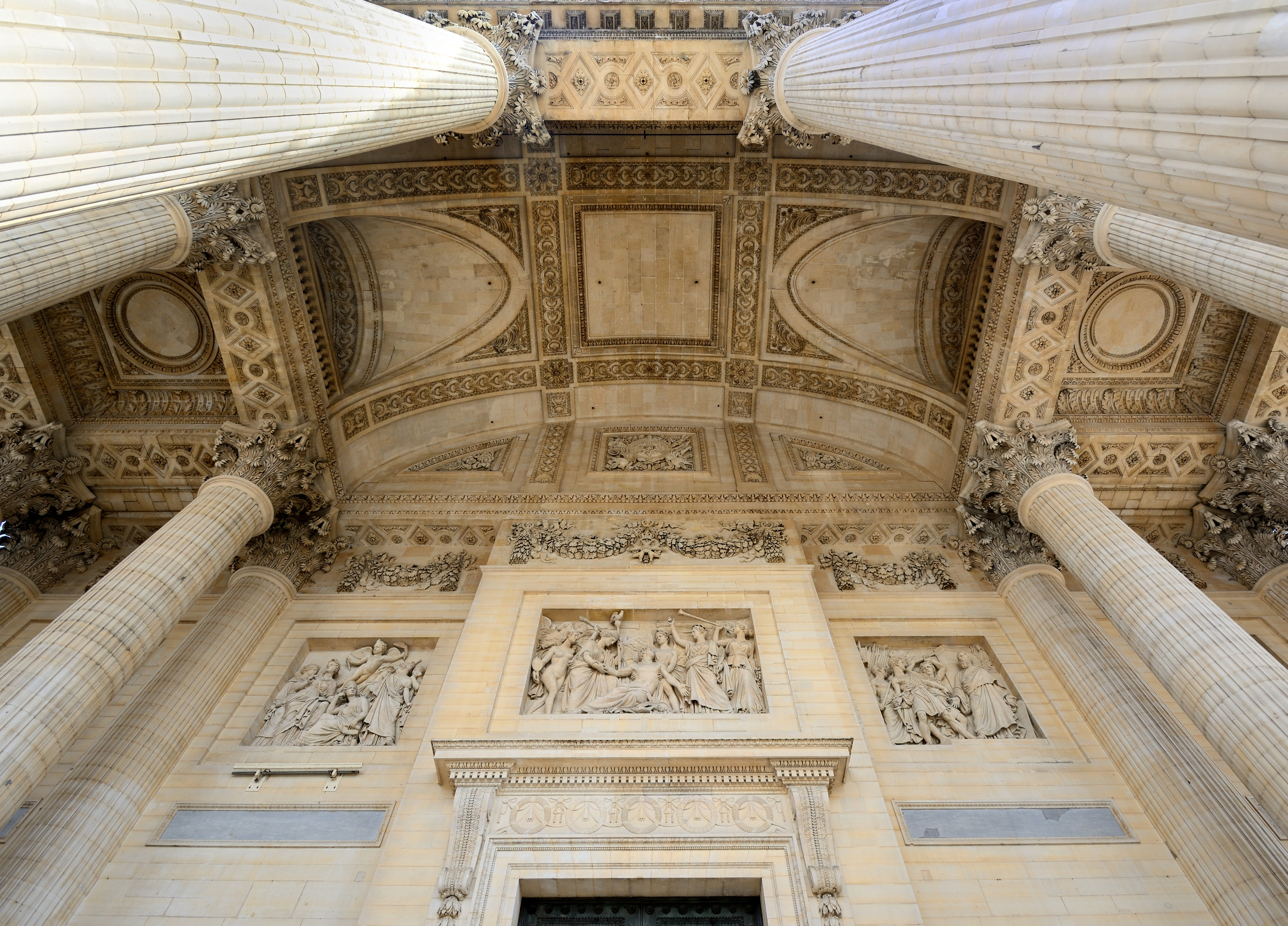 EntrancePanthéon, Paris